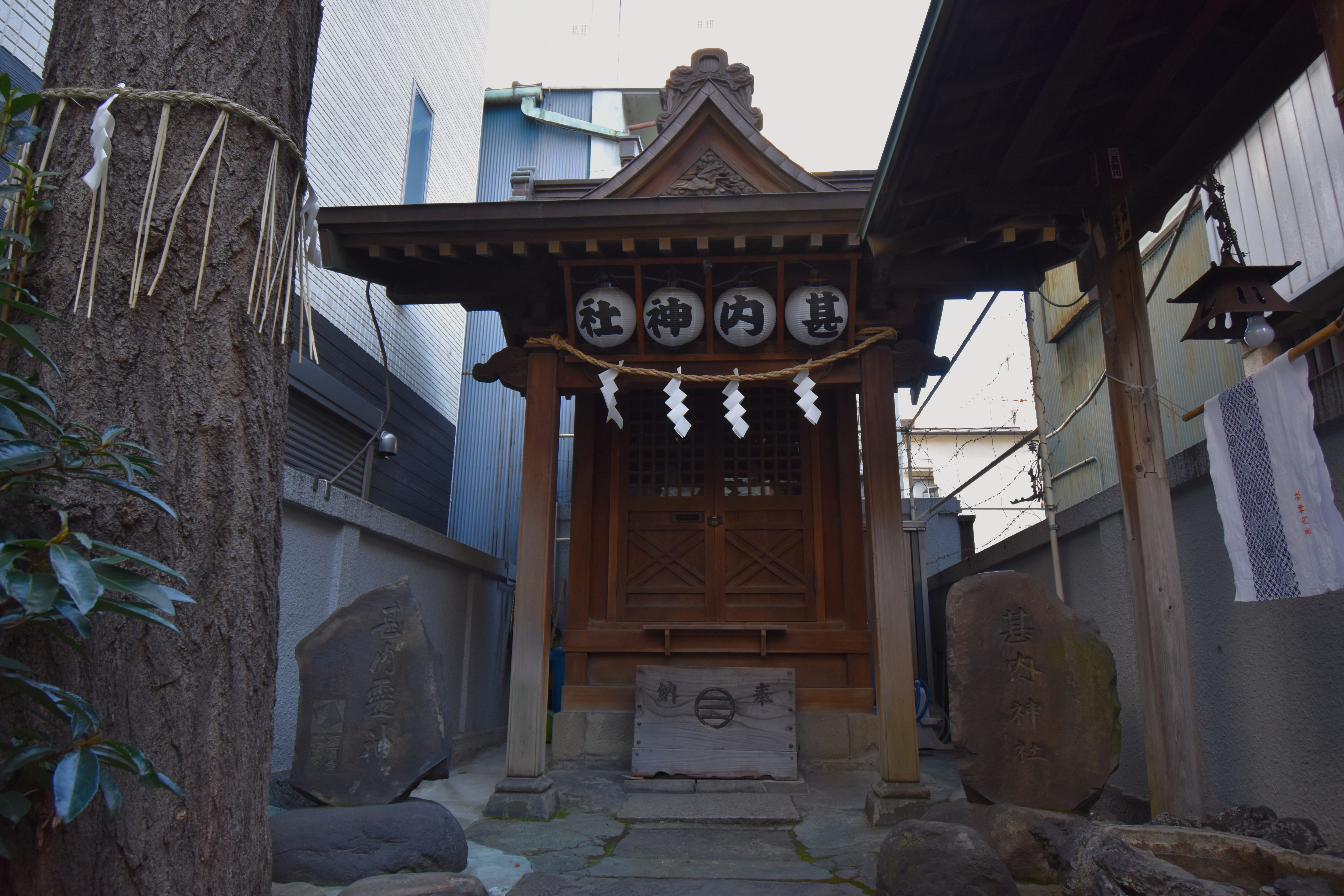 Jinnai Shrine in the Asakusabashi district, Tokyo, dedicated to 17th-century ninja/thief Kōsaka Jinnai who was deified posthumously.